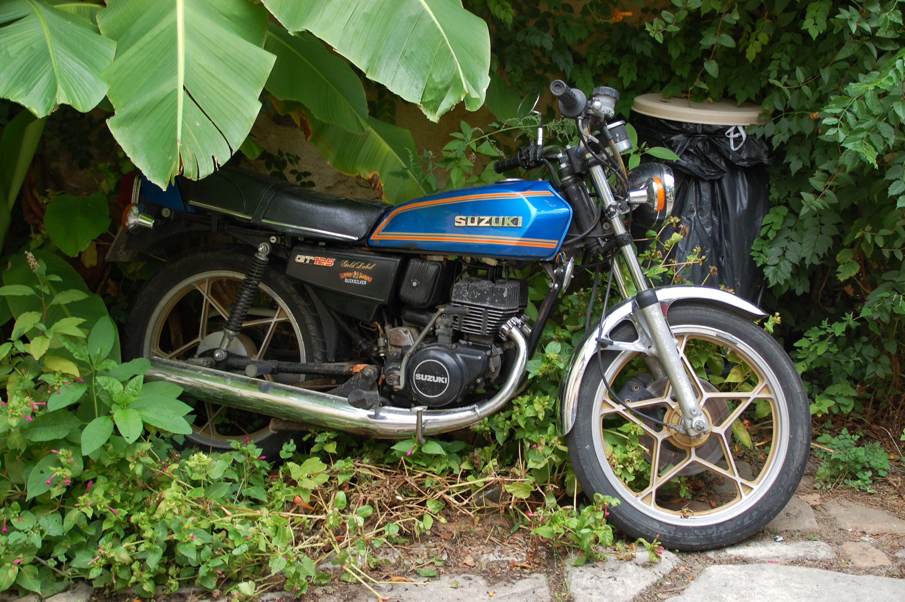 Suzuki GT 125